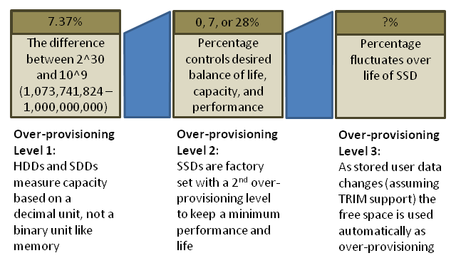 This illustration shows the three levels of over-provisioning that occurs on an SSD